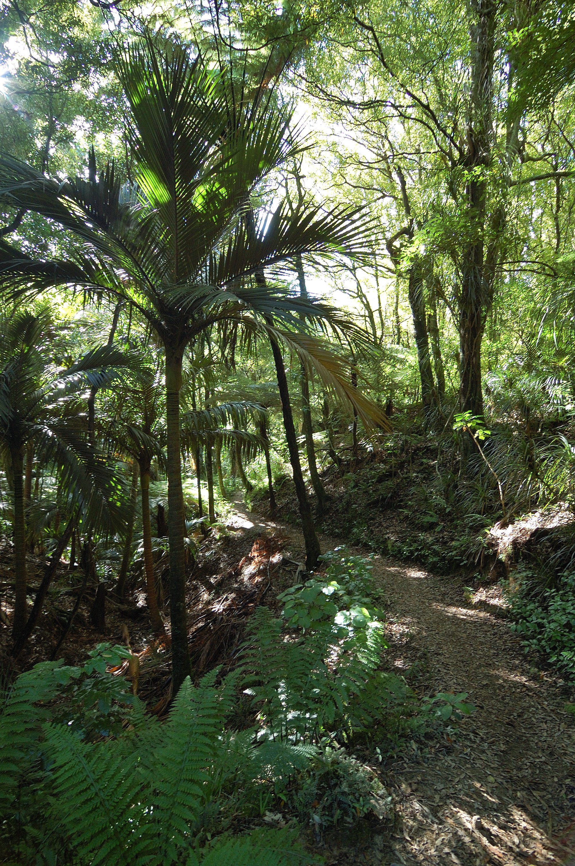 Belmont Regional Park, Wellington, New Zealand [2010]